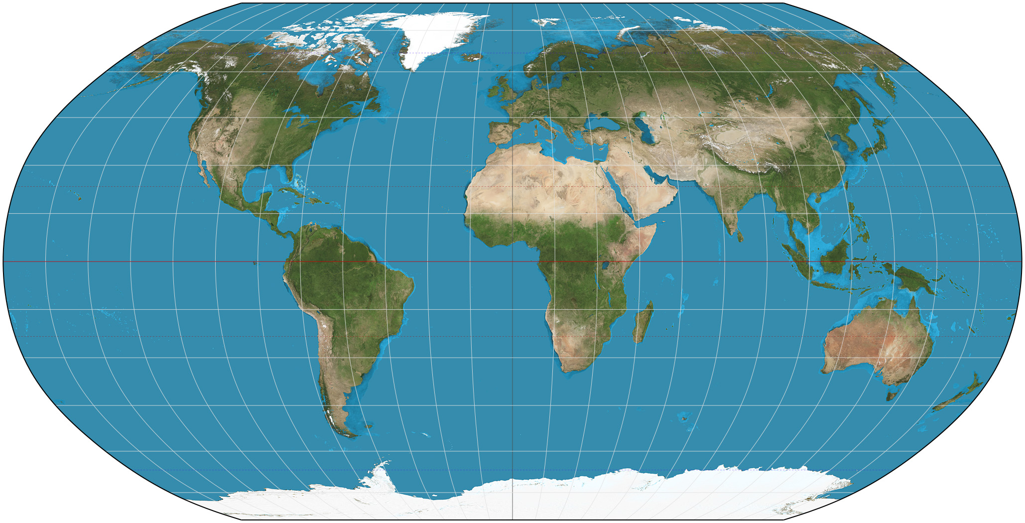 The world on Robinson projection. 15° graticule. Imagery is a derivative of NASA's Blue Marble summer month composite with oceans lightened to enhance legibility and contrast. Image created with the Geocart map projection software.